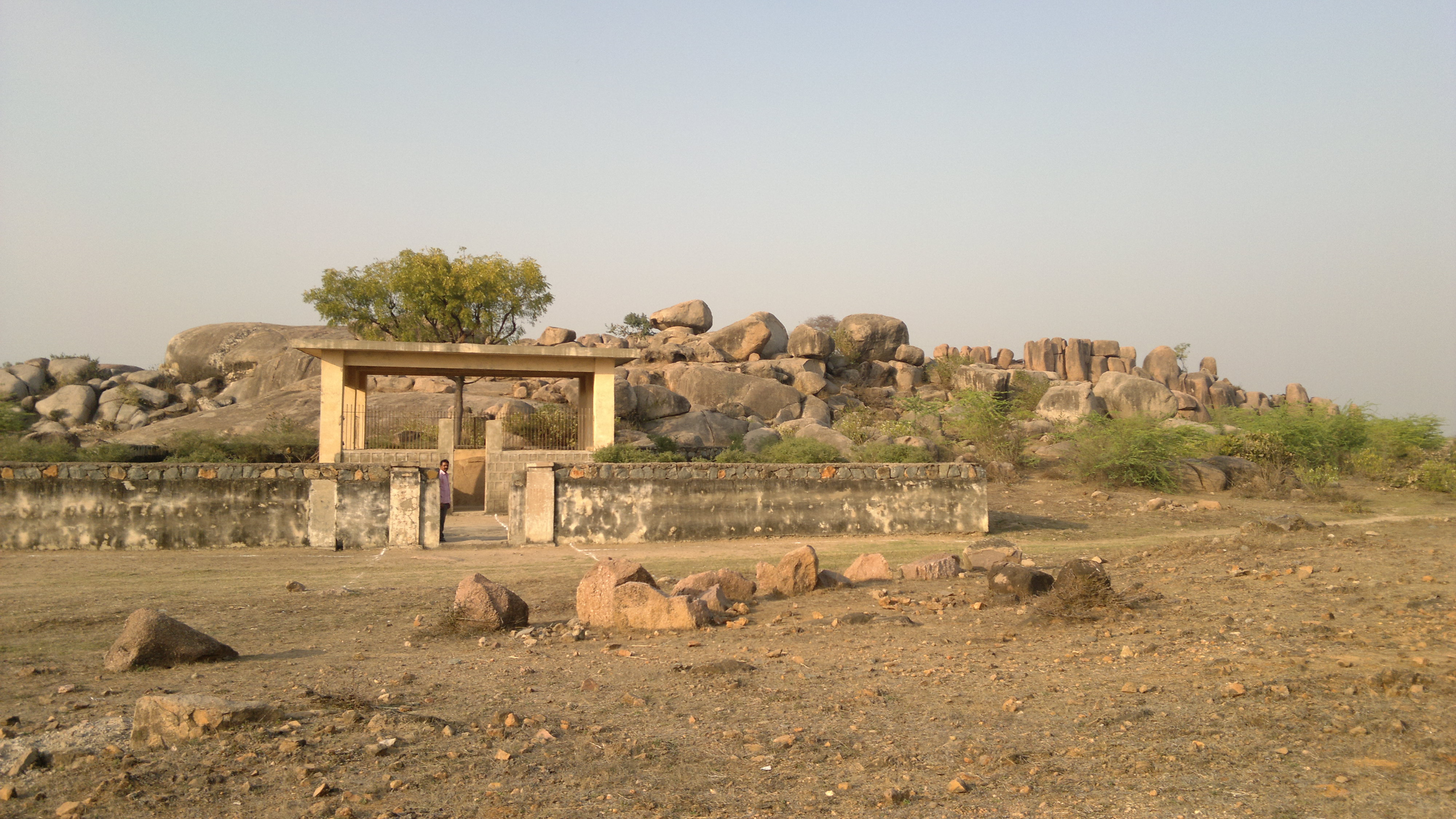 View of Ashoka's Edict at Gujarra, Dist- Datia, State- Madhya Pradesh, India.